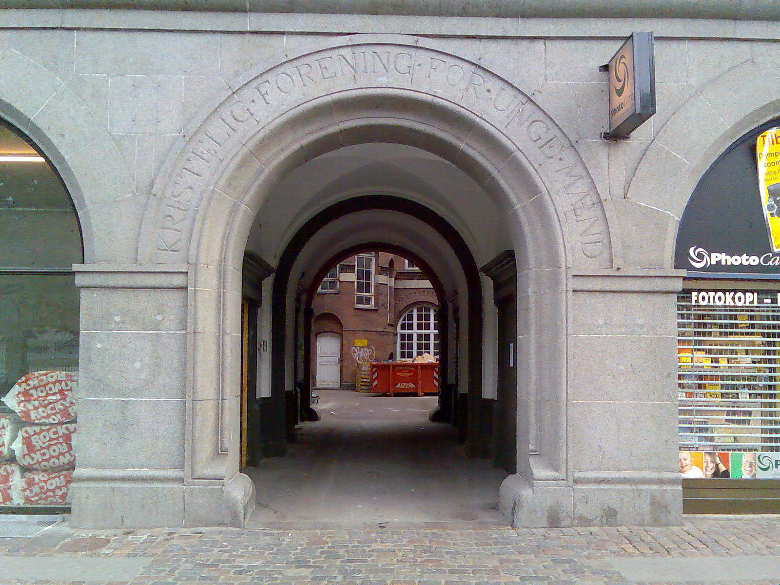 Main gate to Gothersgade 115, DK-1123 København K, Denmark. Part of the "KFUM Borgen" complex. Build in 1900-1901. The Gothersgade building in the foreground, the Tornebuskegade building is visible through the gate. Picture direction South.